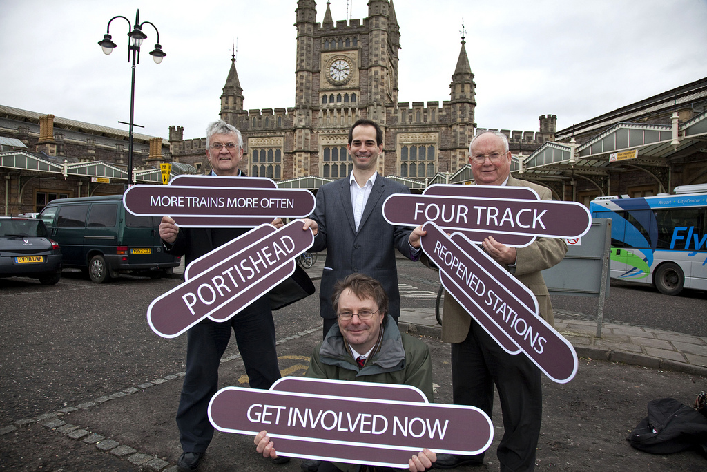 L to R - Cllr Anthony Negus, Cllr Tim Kent - Bristol City Council, Cllr Brian Allinson - South Gloucestershire Council and James White - West of England Partnership (bottom)